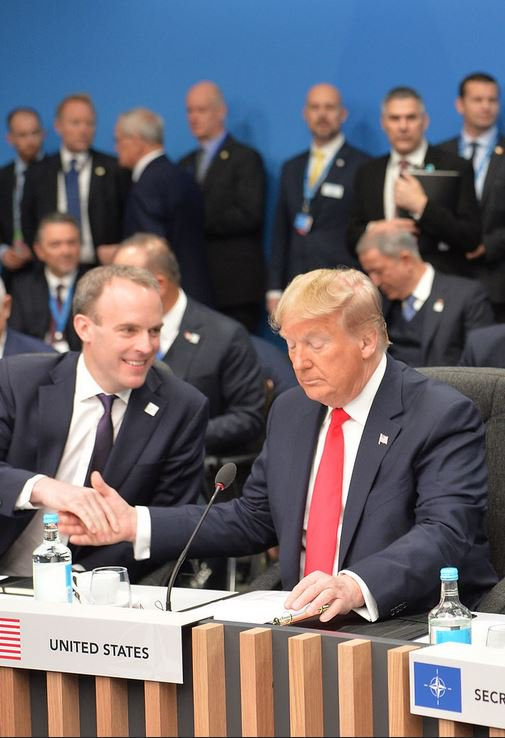 President Trump working side by side with our closest allies to ensure NATO remains strong for the future.